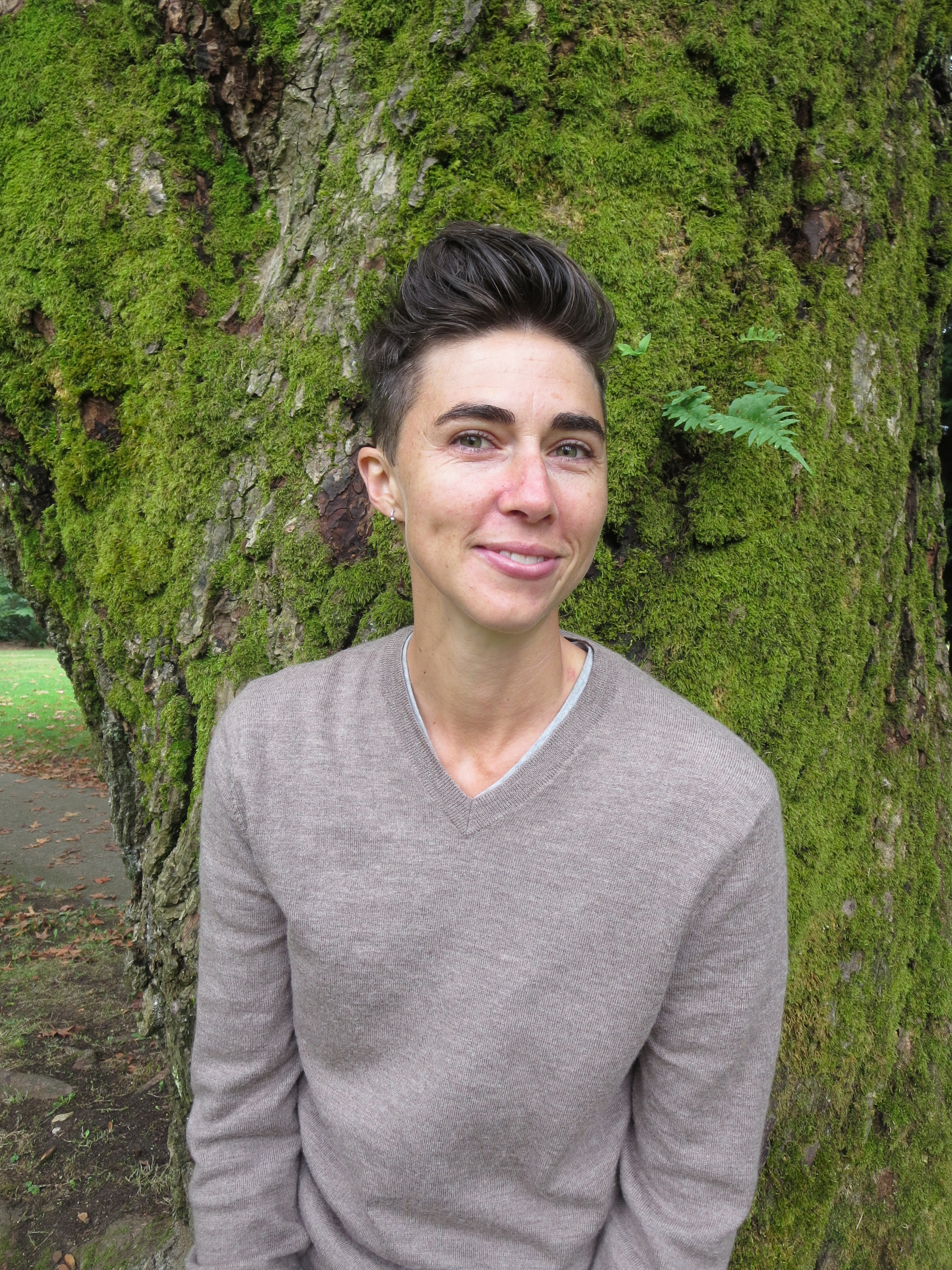 Katrina Spade stands in front of a mossy tree in Seattle, WA in 2017.